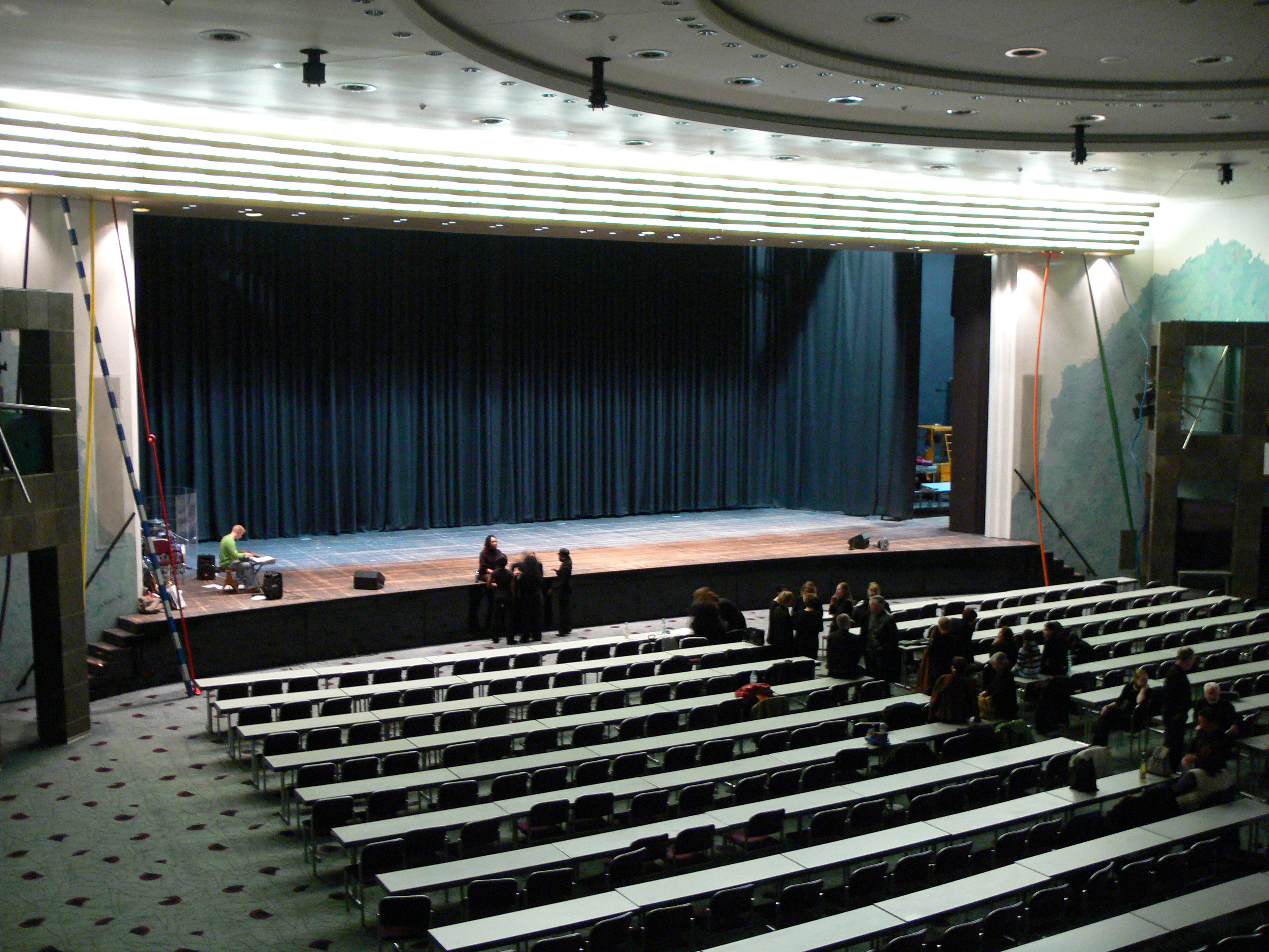 This is the largest hall at the Congress Centrum in Bremen. Here, we (Voices of Bremen) will be giving a concert this saturday. It's a one-evening show - (german only)